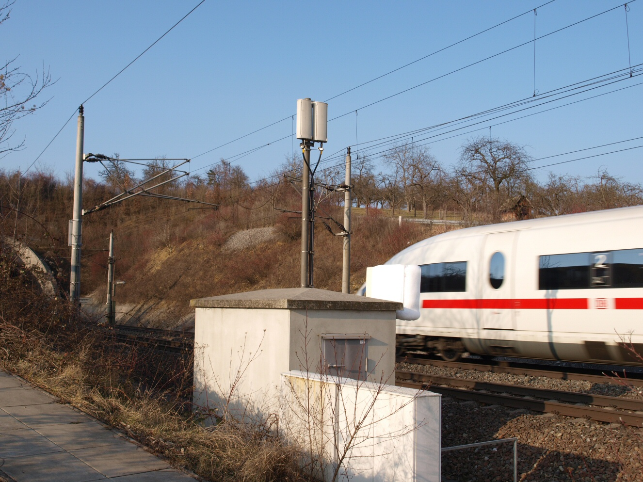 A GSM-R-Station of the Deutsche Bahn, picture taken at the eastern entrance of the Marksteintunnel. One can see the two TX/RX-Antennas of the redundant transmit and receive path. The station itself is located in the small concrete housing.